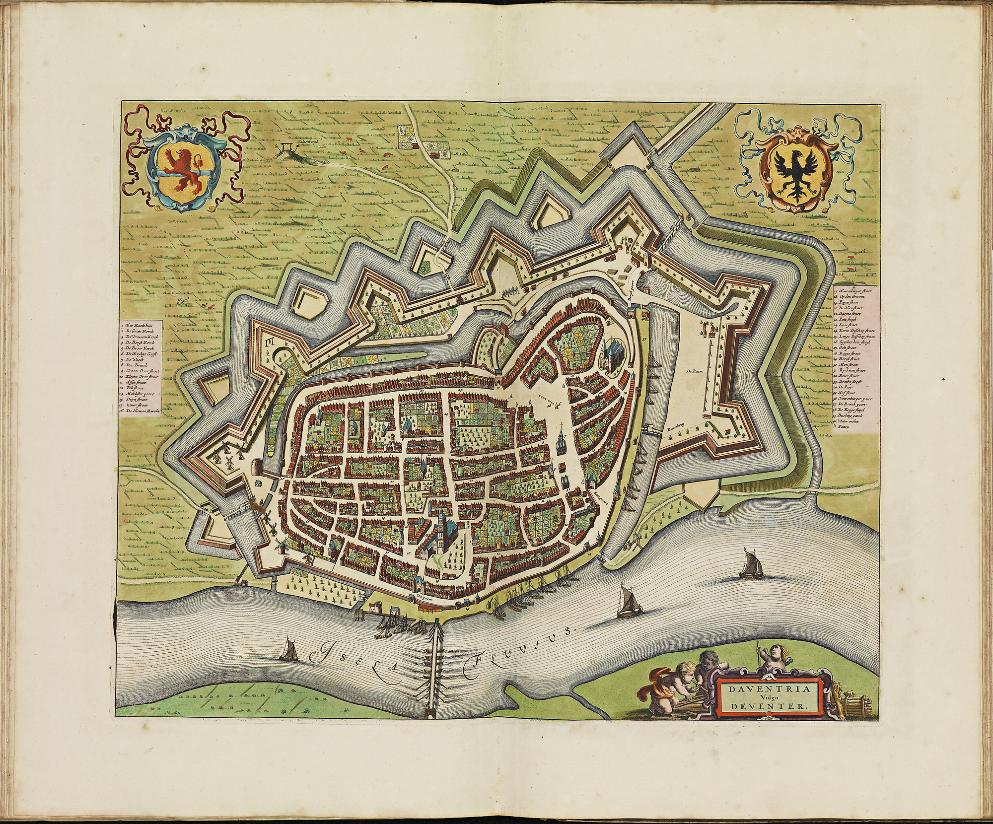 Plate 'pl057'(Deventer) from the Stedenboek (citybook) by Frederick de Wit.